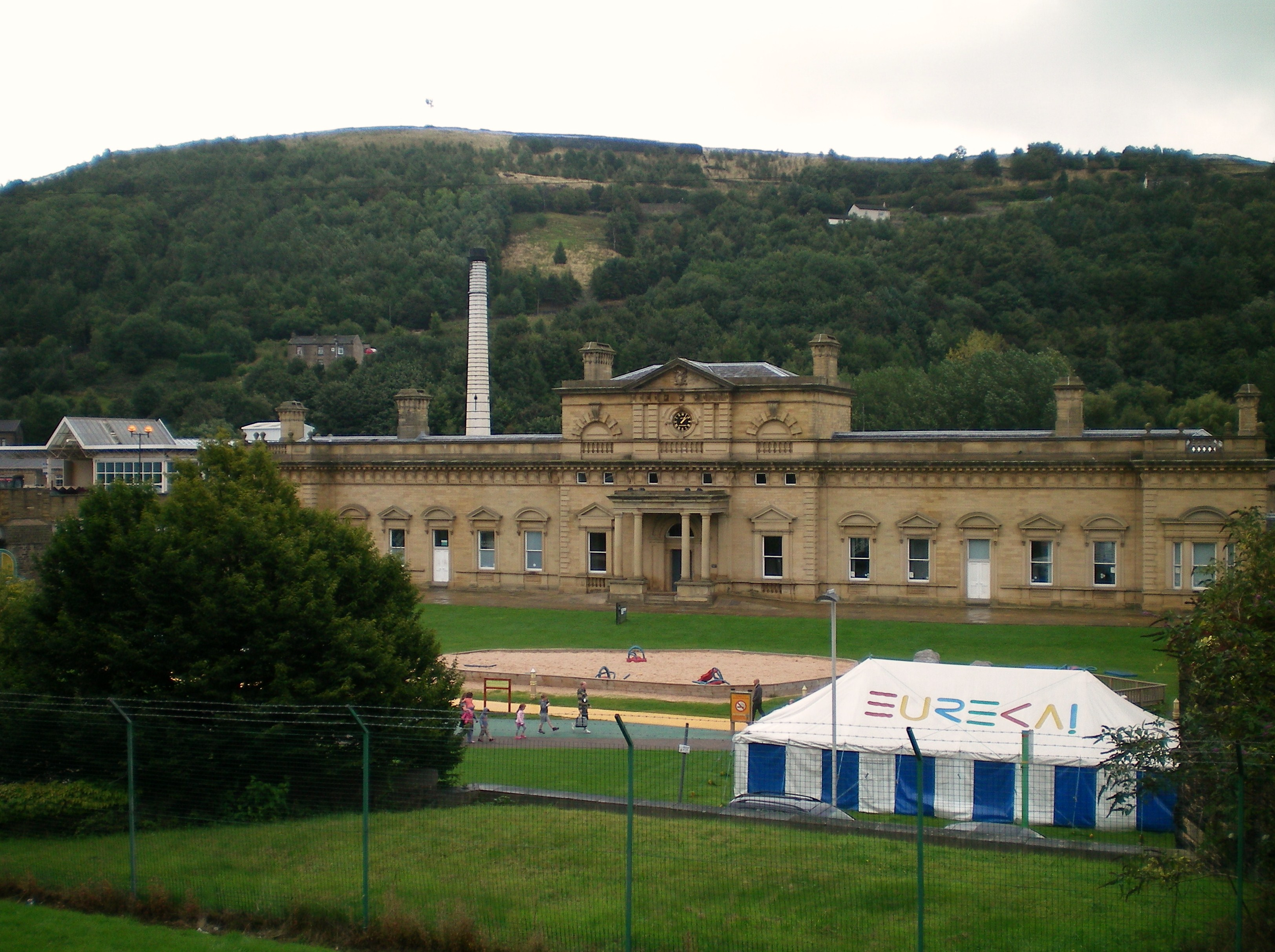 Halifax old and new railway stations, West Yorkshire, England.